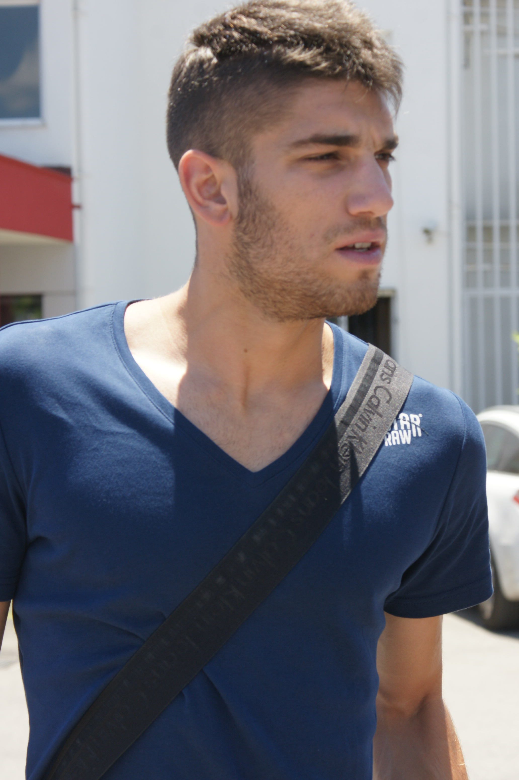 Photo:Murat Özgen